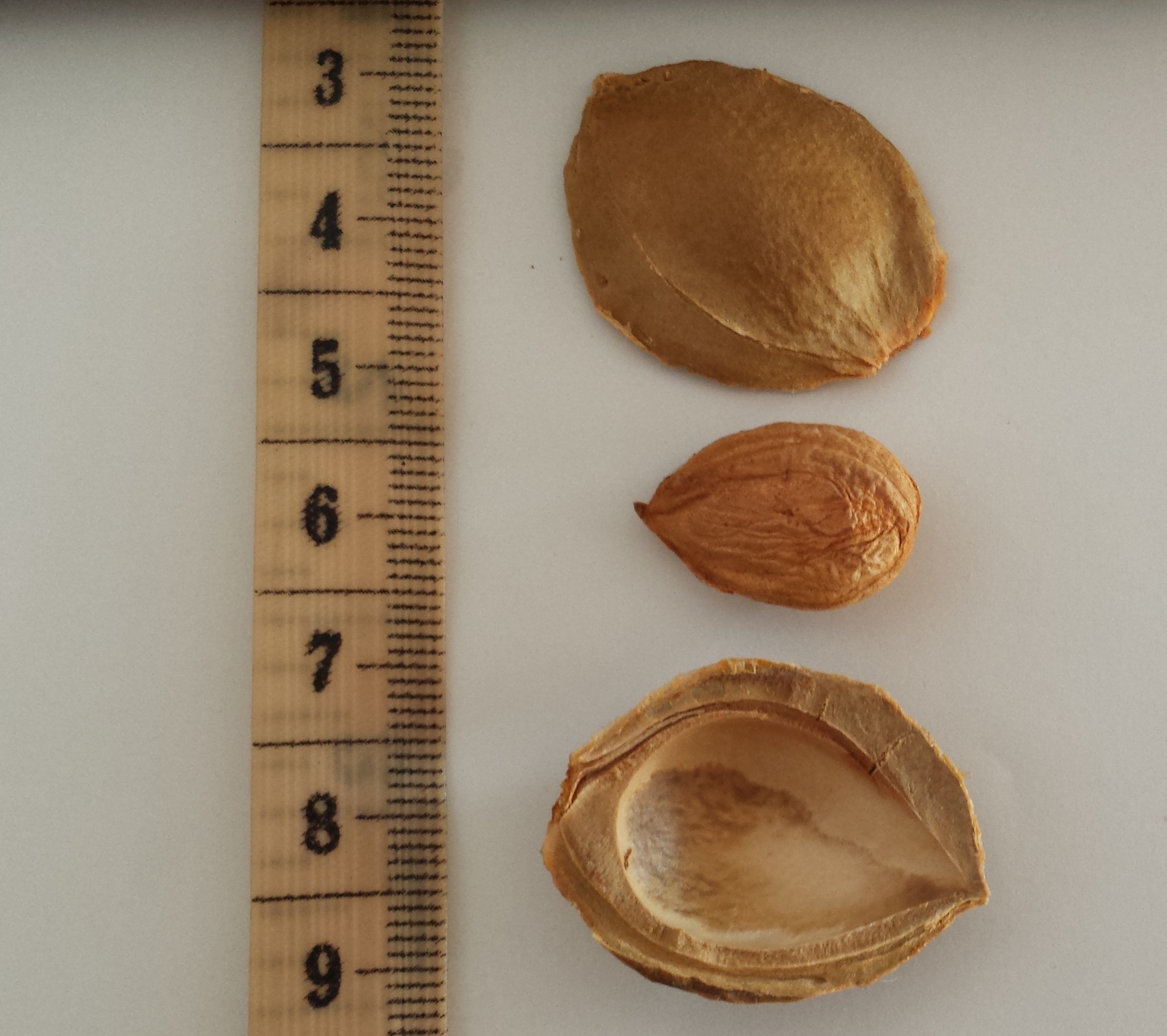 Romanian apricot kernel together with seed shell broken in two (centimeter scale). Bought from local market (City of Brașov/Romania)